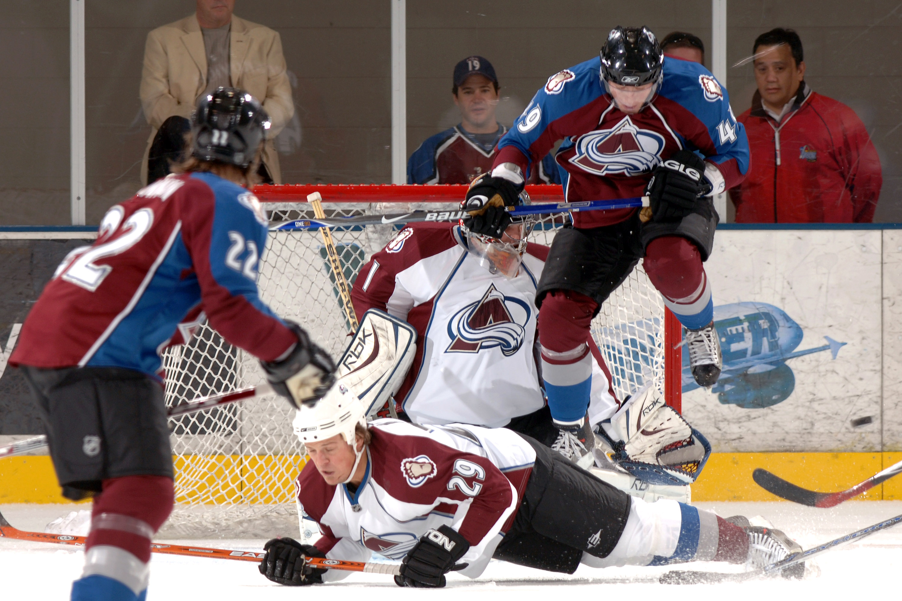 Colorado Avalanche left wing Victor Oreskovich leaps to avoid the puck and sliding defenseman Jeff Jillson during the Burgundy and White intra-squad scrimmage Sept. 16 at the Cadet Ice Arena at the U.S. Air Force Academy in Colorado Springs, Colo. It was the first time an NHL team ever played at the Academy. (U.S. Air Force photo/Dave Armer) Also seen in the picture are Tyler Weiman and Scott Hannan.